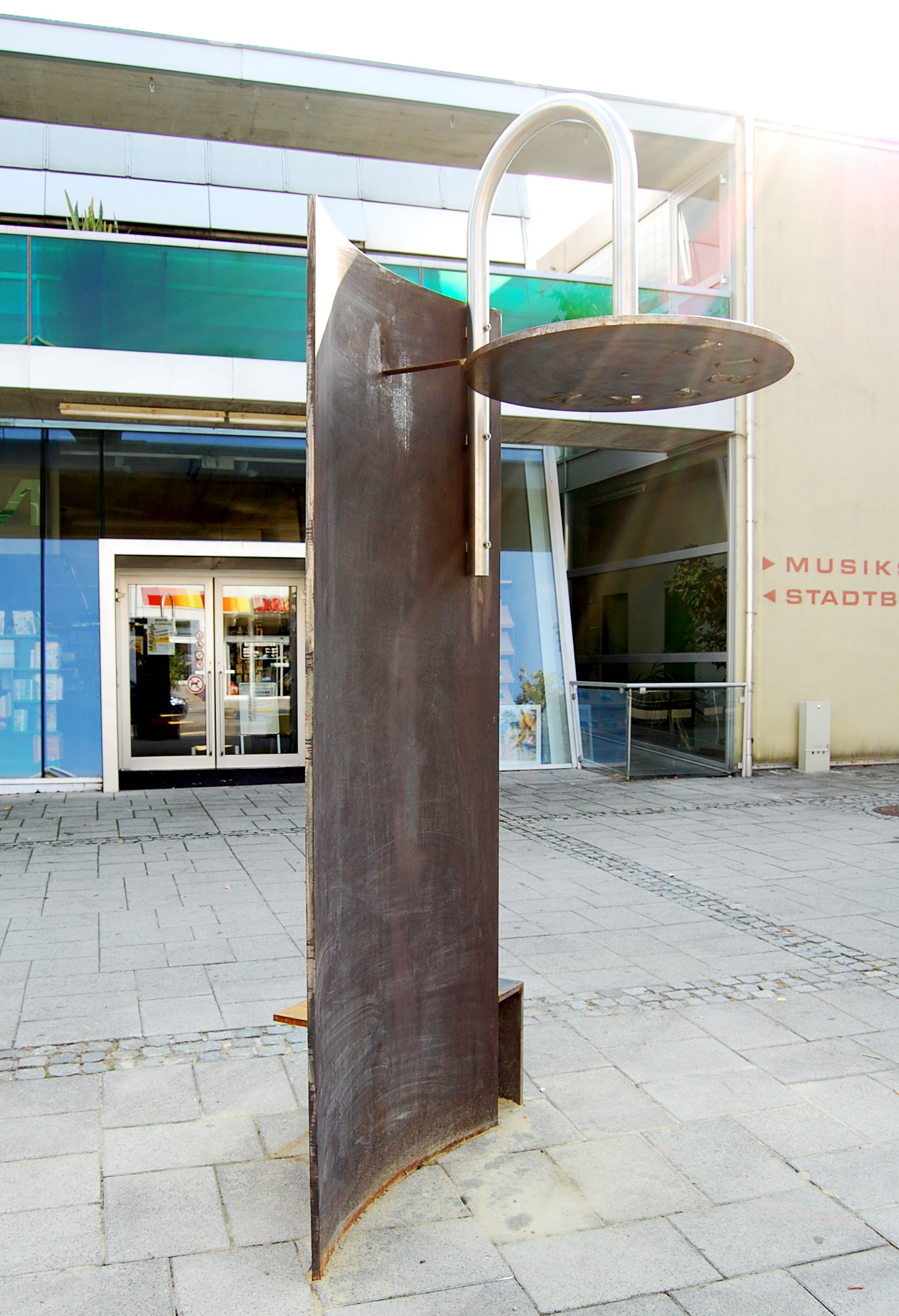 Piefke monument was set in September 2009 Johann Gottfried Piefke in Gänserndorf